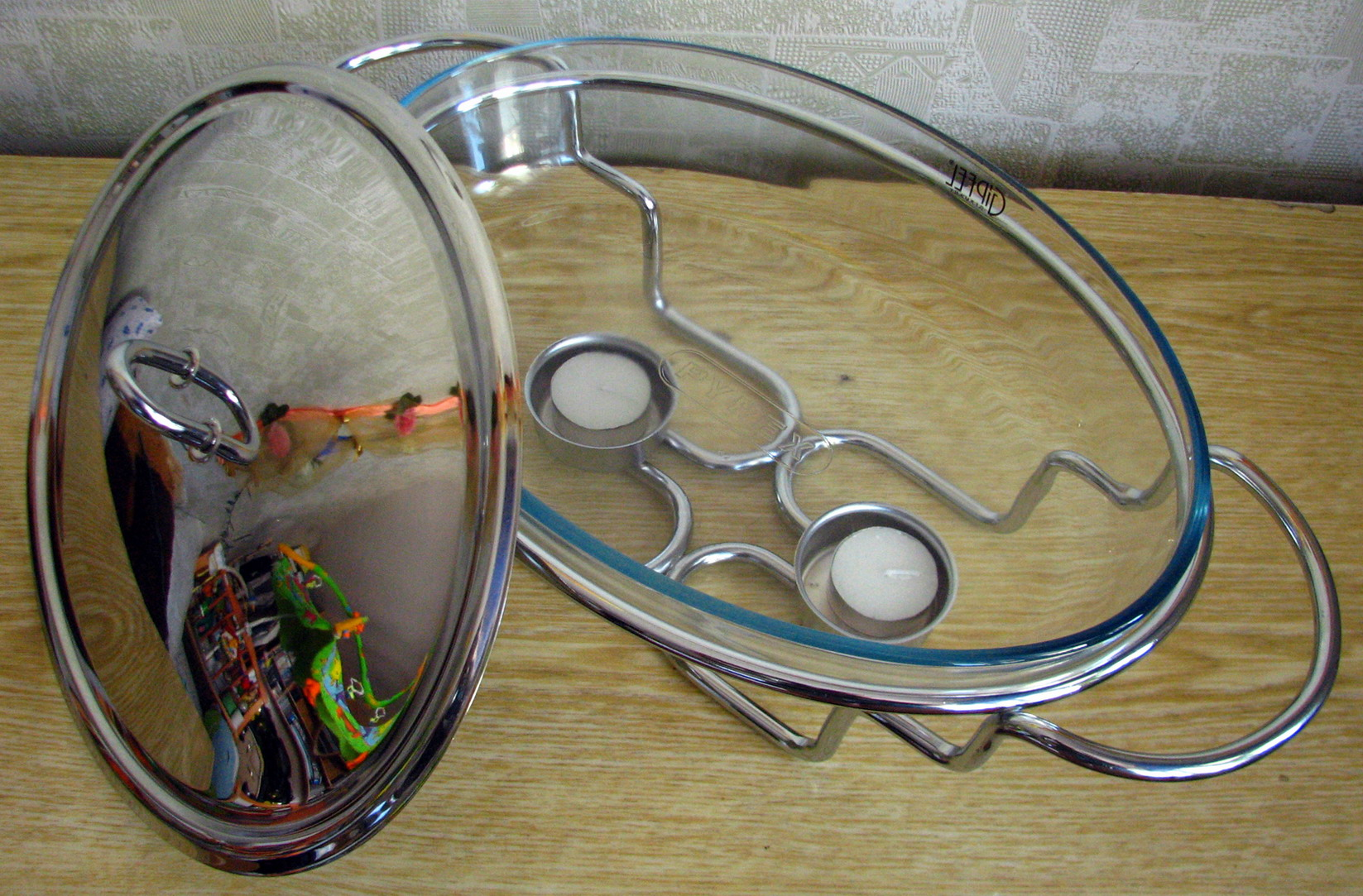 Chafing dish